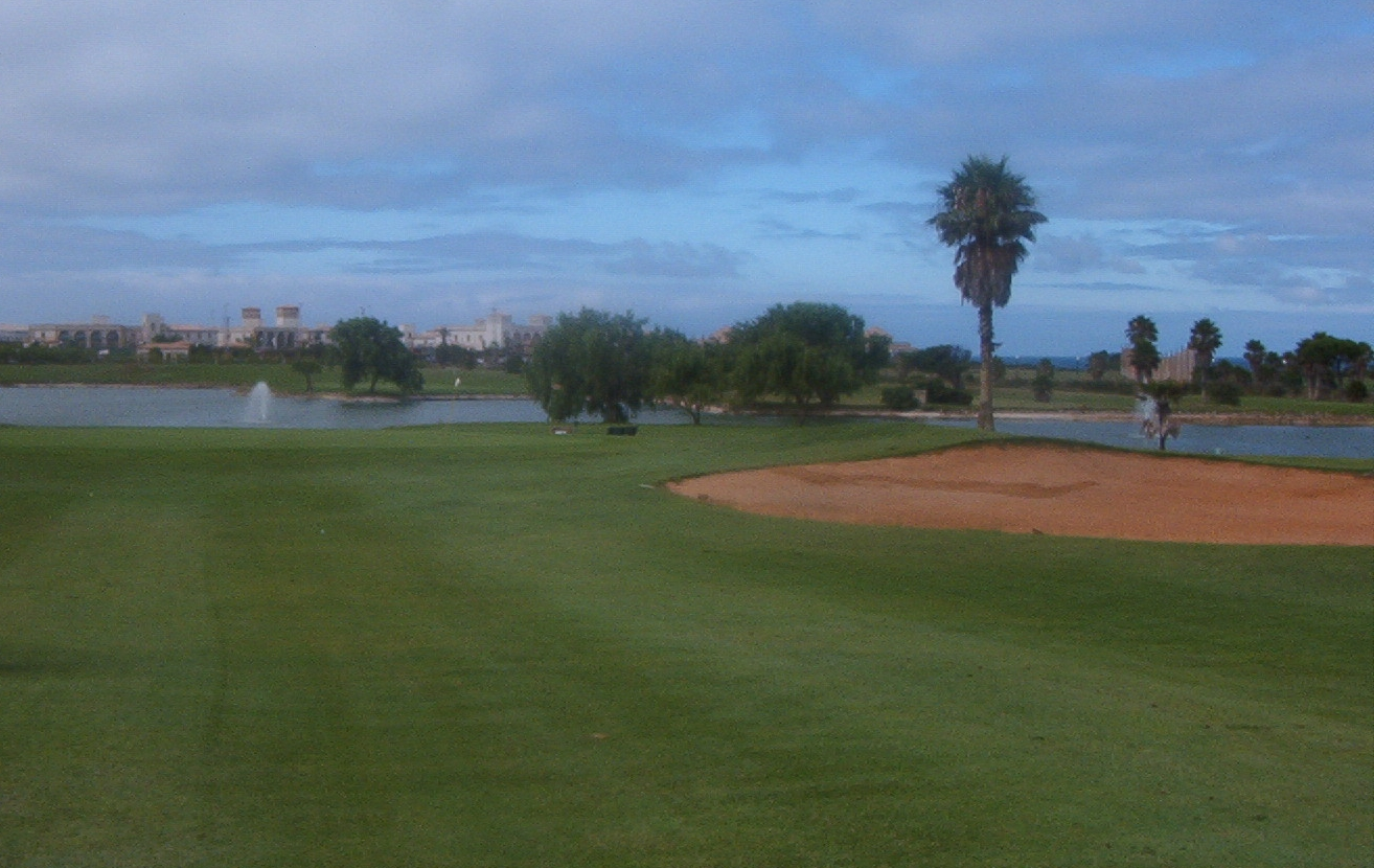 Golf course Novo Sancti Petri near Chiclana, Cádiz, Spain